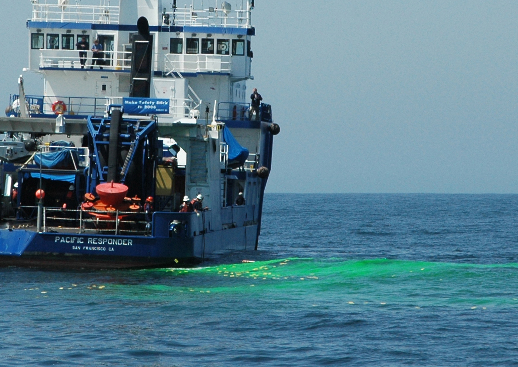 The Gulf of the Farallones: Marine Spill Response Corp. (MSRC) crew members of the vessel Pacific Responder throw drift cards onto a simulated oil slick in preparation for the Safe Seas 2006 Oil Spill Response Exercise held Aug 9, 2006. The cards are tracked during and after the exercise to record the speed and direction an oil slick would travel. An Air Force Reserve C-130H assigned to the 910th Airlift Wing at Youngstown Air Reserve Station, Ohio, targeted the slick spraying a simulated dispersant over it as part of the exercise. ABS class no: 9300196 Call sign: WBO8588 IMO number: 9043885 MMSI no.: 366605000 USCG Doc. No.: 983104